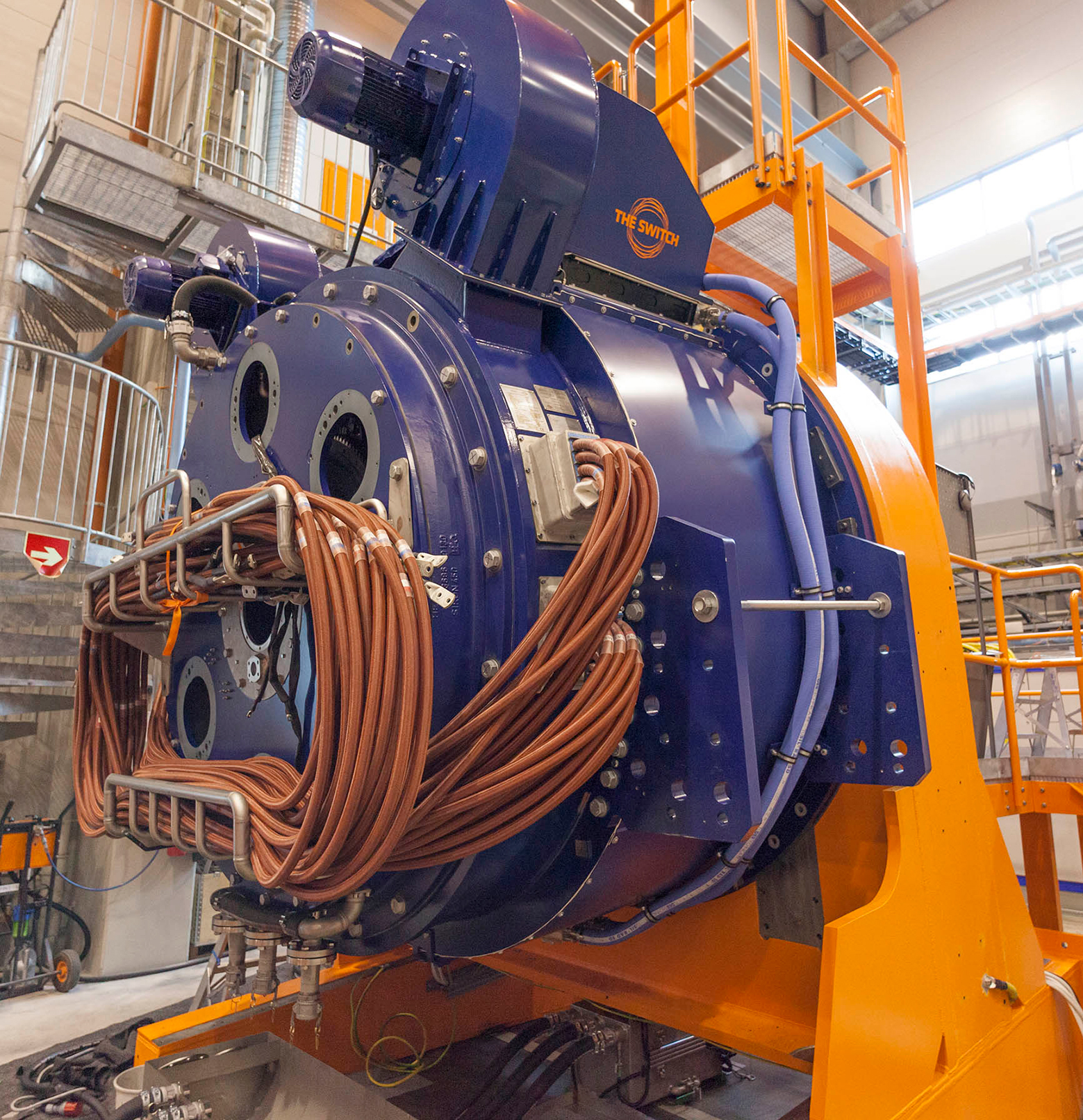 The Switch Permanent Magnet Generator for wind turbine application in a testing phase at Vaasa factory